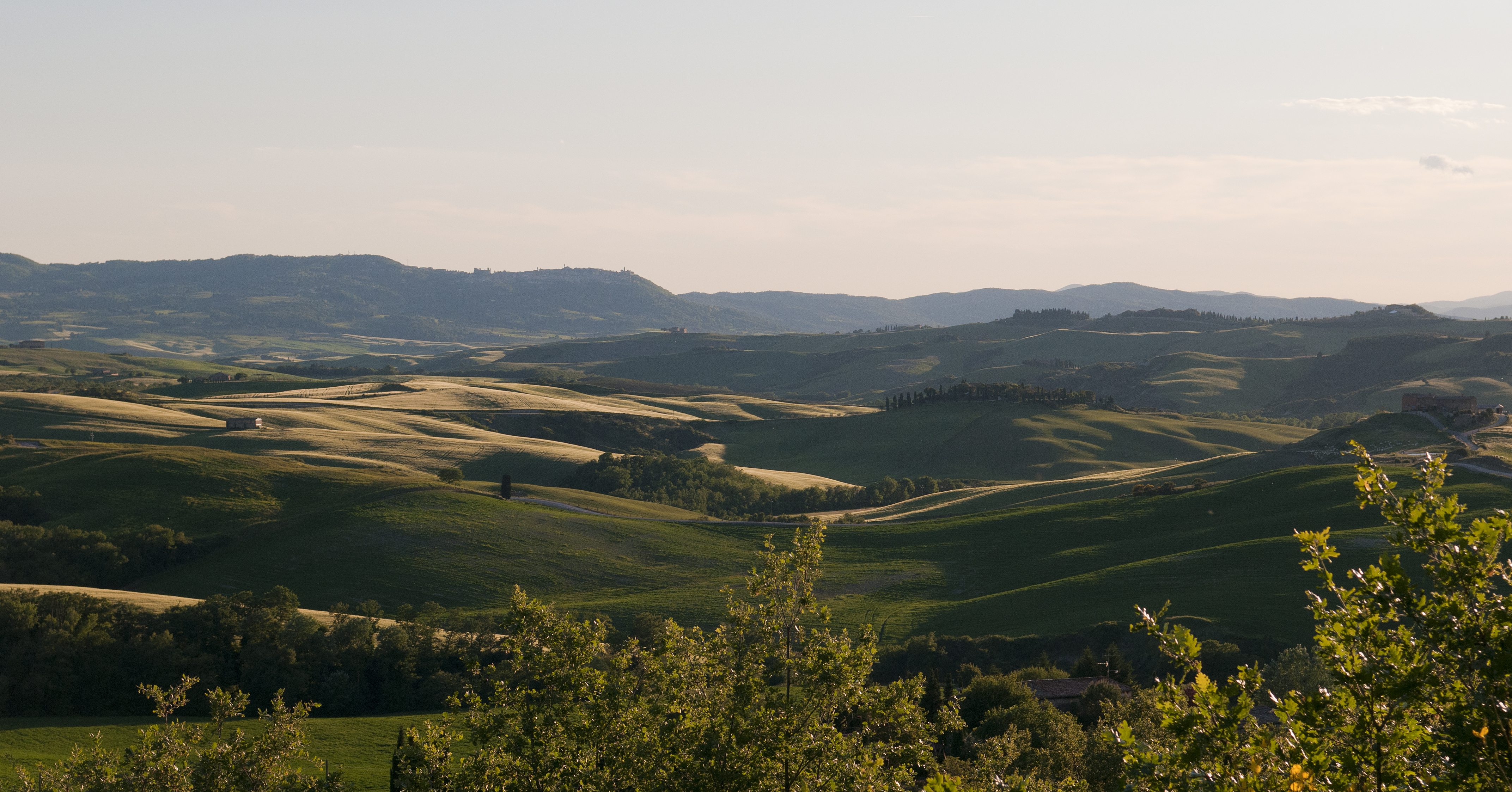 Tuscan views at sunset